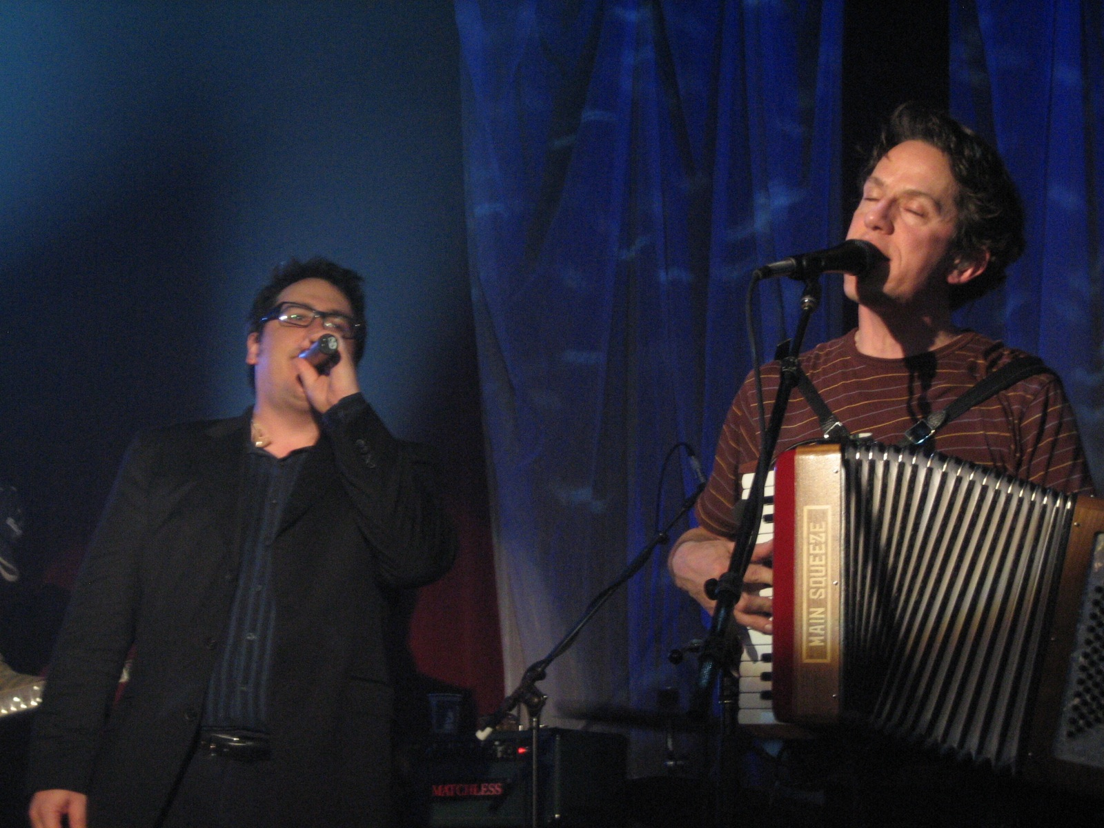 They Might Be Giants performing at the New Years Eve Concert at Northsix